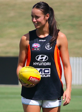 Walker warming up in her debut game vs GWS